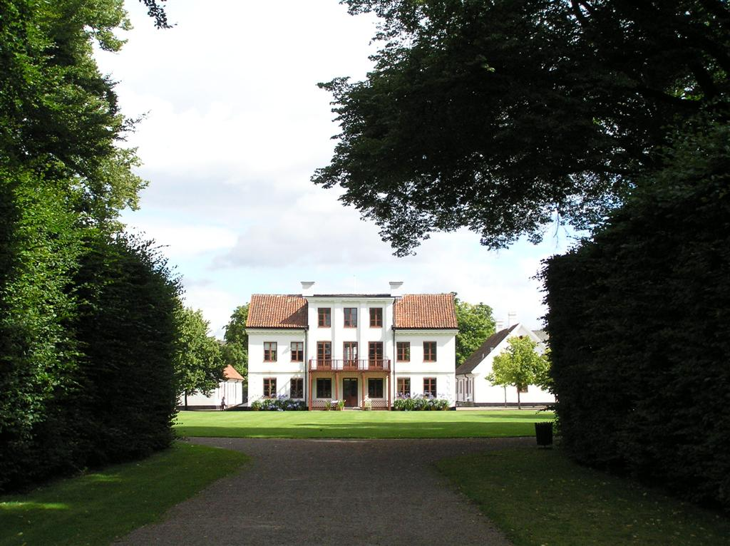 Photo: Bengt Olof ÅRADSSON